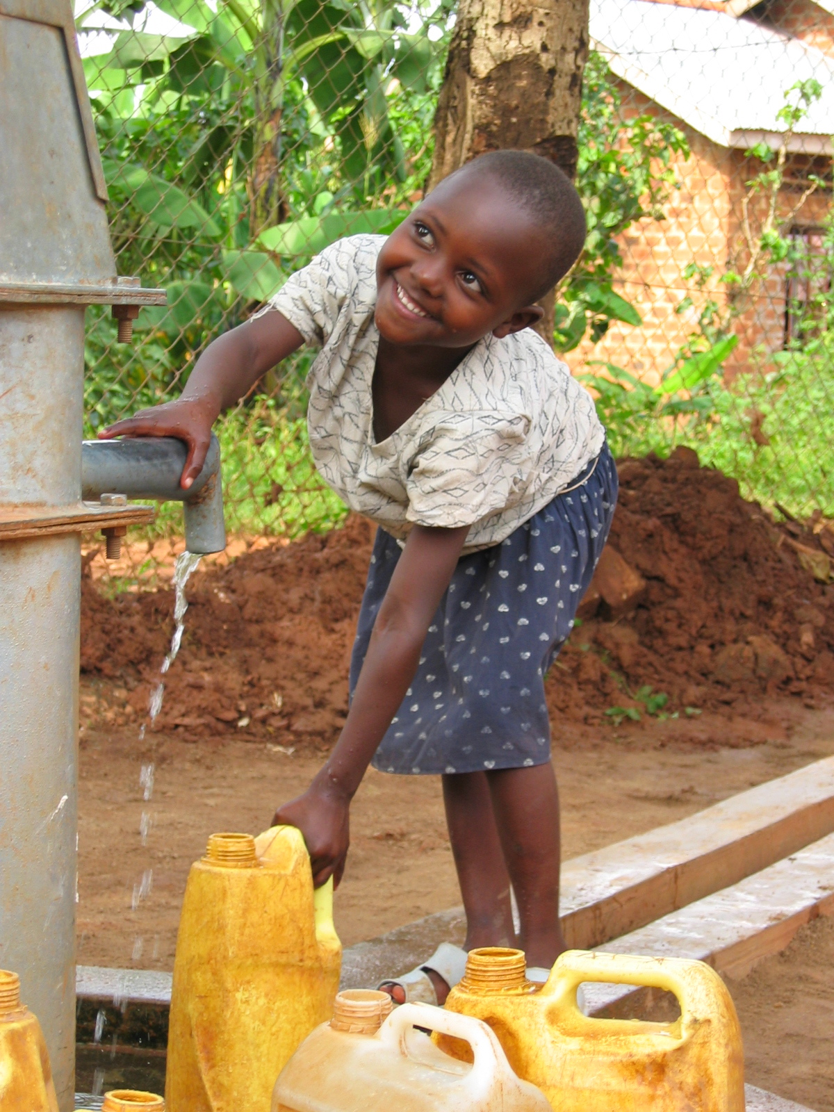 This is my own photo, taken on January 27, 2007 at the Mercy Home for Children outside Kampala, Uganda. The clean water well was installed in 2006 and funded by Blood:Water Mission.